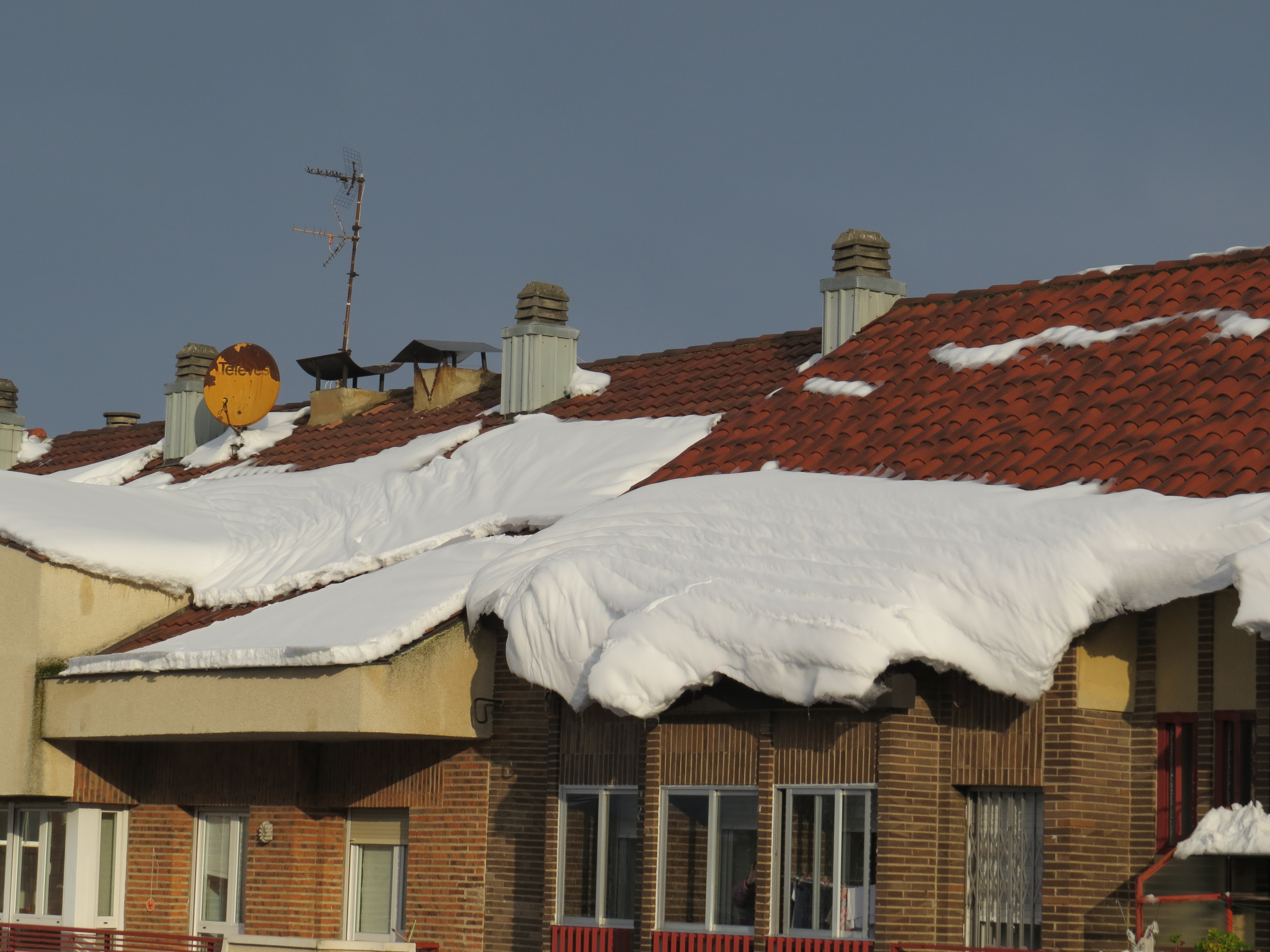 Roof avalanche